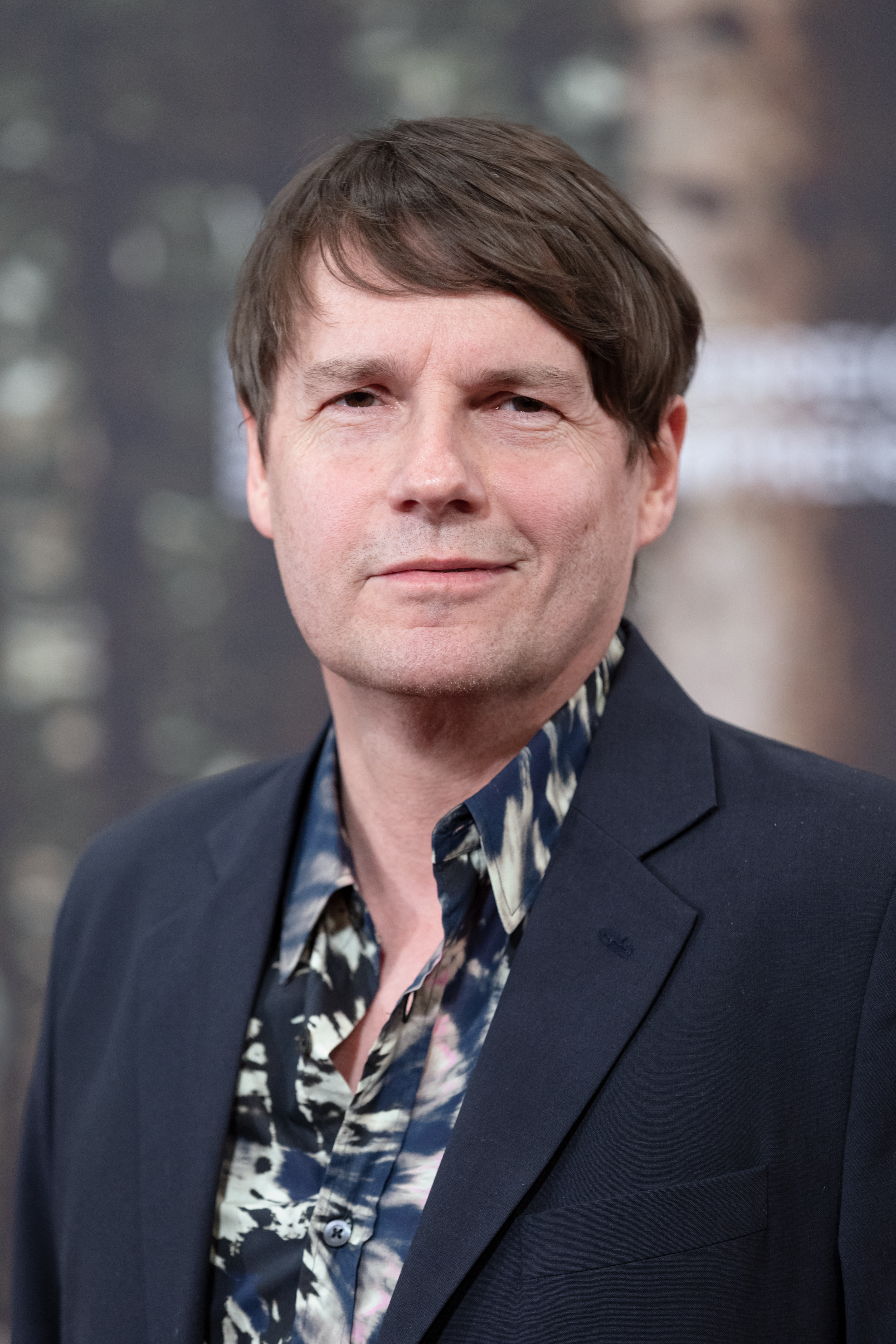 Alarich Lenz (editor Nobadi) at the Austrian Film Awards 2020 (Auditorium Grafenegg at Grafenegg Castle, Lower Austria,Austria).